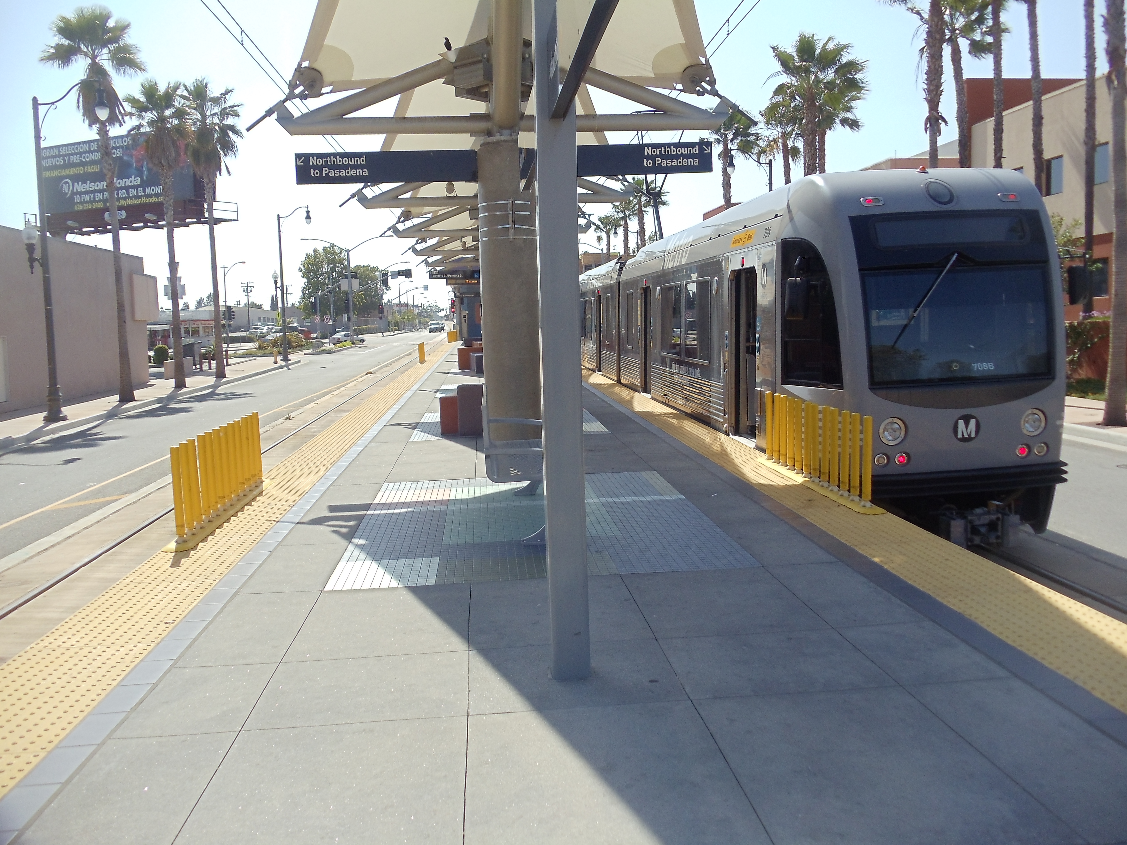 Atlantic Station is currently the eastern terminus of the Metro Gold Line.